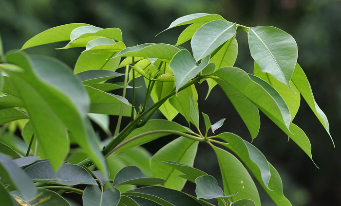 Semal Bombax ceiba in Kolkata, West Bengal, India.